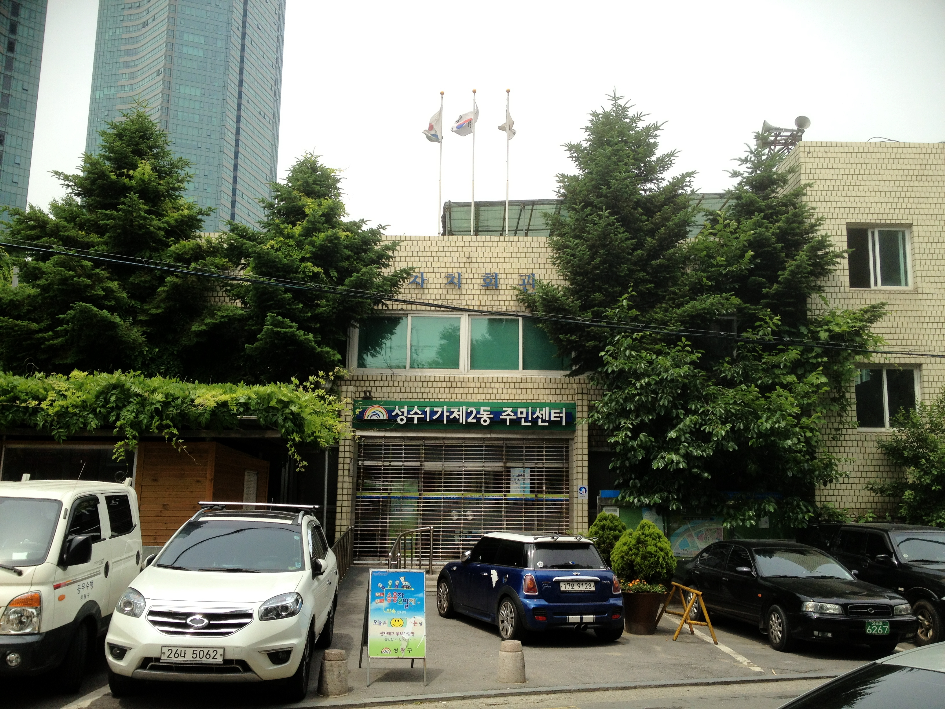 Seongsu 1-ga 2-dong Comunity Service Center(Seongdong-gu)